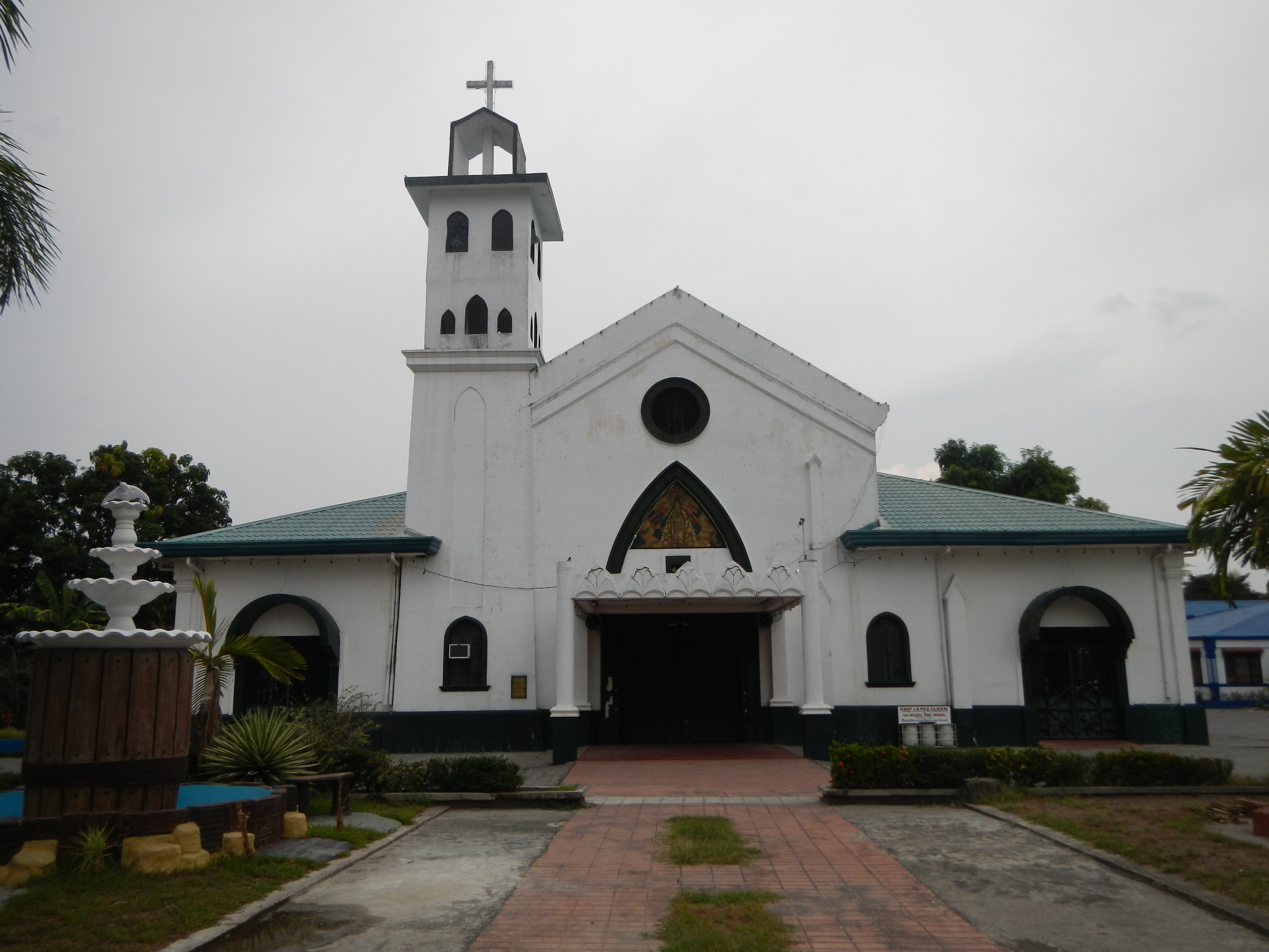 (F-1790) Shrine of Our Lady of Peace and Good Voyage (Nuestra Señora de la Paz y Buen Viaje) : La Paz 2314 Tarlac, Philippines[1] 2314 Zip Code[2] Titular: Our Lady of Peace and Good Voyage, January 24 Former Parish Priest: Father Ramon Capuno[3] Roman Catholic Diocese of Tarlac[4] The Church of La Paz[5]Pilgrims seek healing in La Paz, Tarlac January 17, 2010 - [6]Our Lady of Peace and Good Voyage (Nuestra Señora de la Paz y Buen Viaje) Fr. Ramon Capuno, former rector-Parish Priest of La Paz’s parish church,Coordinates: 15°26'32"N 120°43'47"E [7]Vicariate of Immaculate Conception (Victoria, Tarlac) Vicar Forane: Father Vely Lapitan[8]LA PAZ: THE CORRIDOR OF UPCOMING MARKET GROWTH AND BOOM